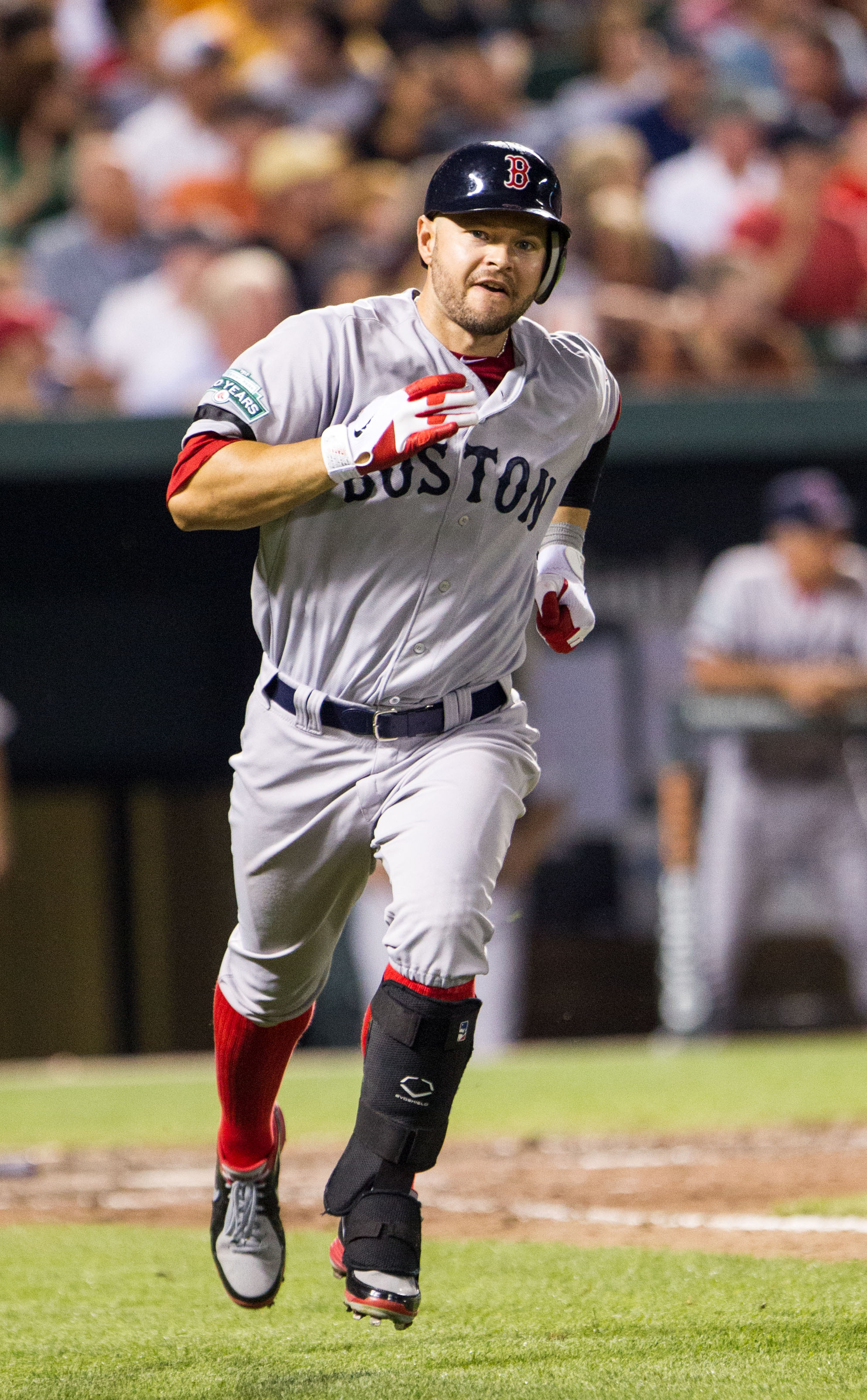 Cody Ross